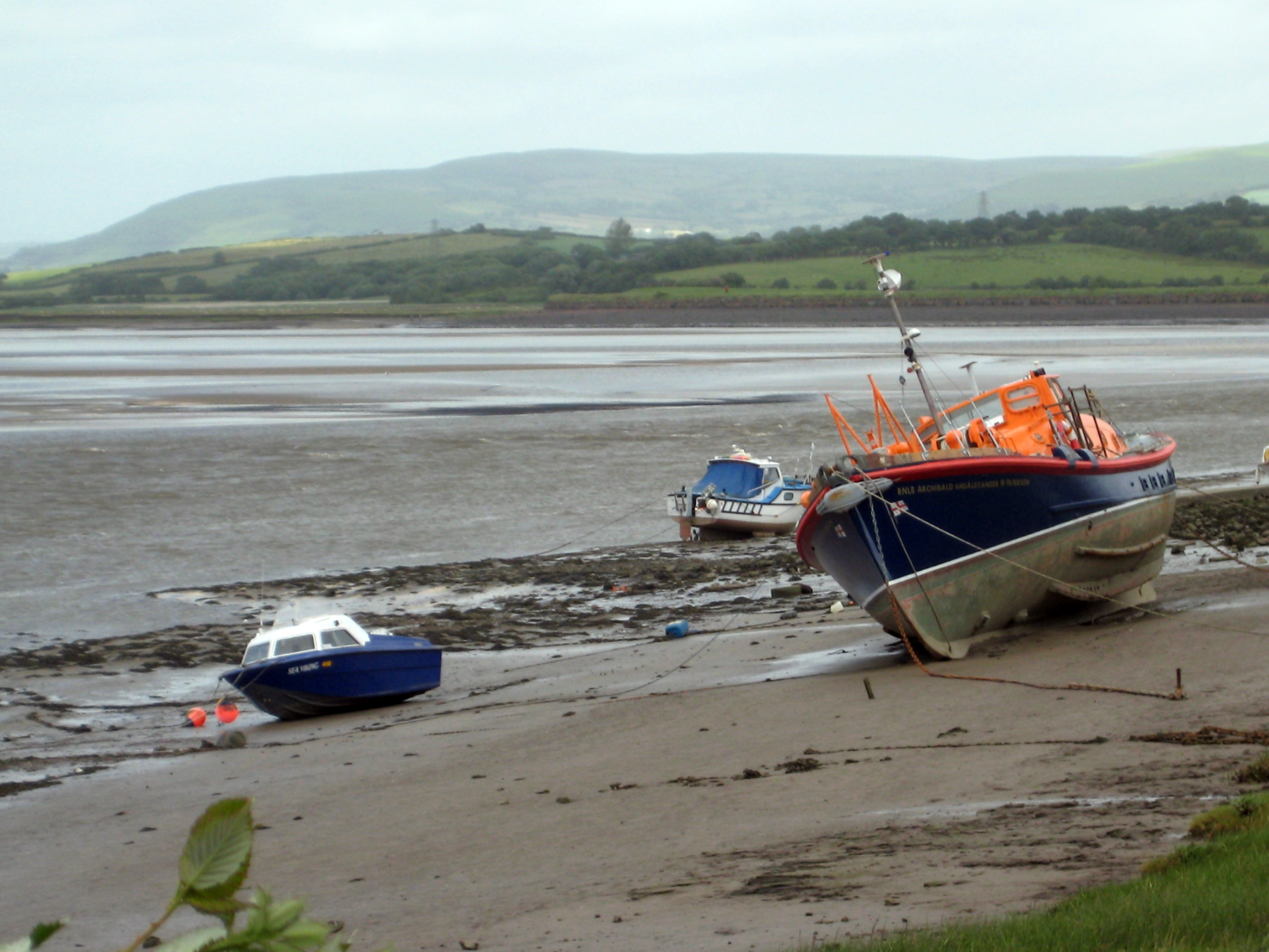 River Loughor just upstream from Loughor bridges